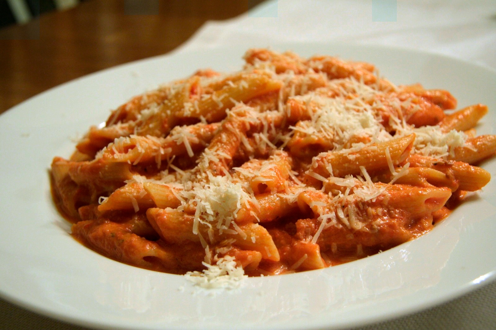 Penne alla vodka, a classic Italian dish.